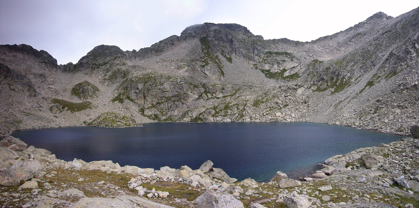 Estany de Contraix, la Vall de Boí, Alta Ribagorça, Catalonia